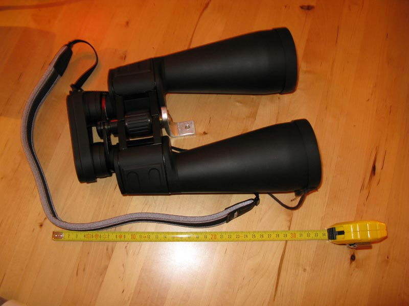 15x70 binoculars for astronomical use which are large, but not too large.